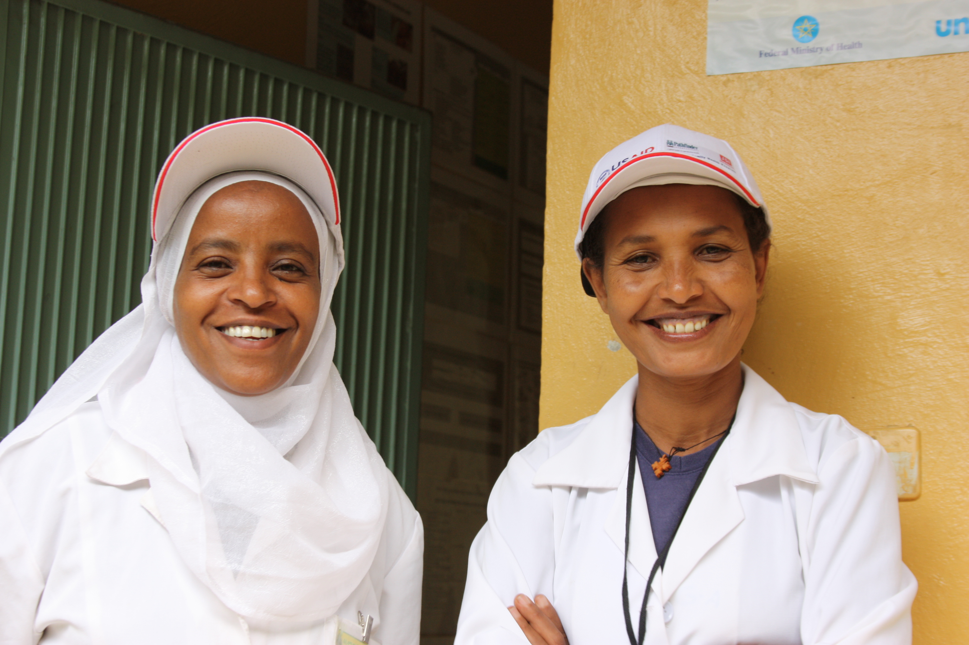 Community Health Workers in Ethiopia provide a valuable lifeline to individuals who face long distances, prohibitive expenses, and other barriers to accessing health care. USAID supports the training and development of Community Health Workers in Ethiopia as a reliable and cost-effective way to offer basic health services to large, low-income, and spread-out communities. The Health Workers are able to diagnose and treat malaria, diarrhea, and respiratory illnesses as well as provide preventative care such as vaccinations and nutritional counseling. Photo credit: Nena Terrell/USAID.